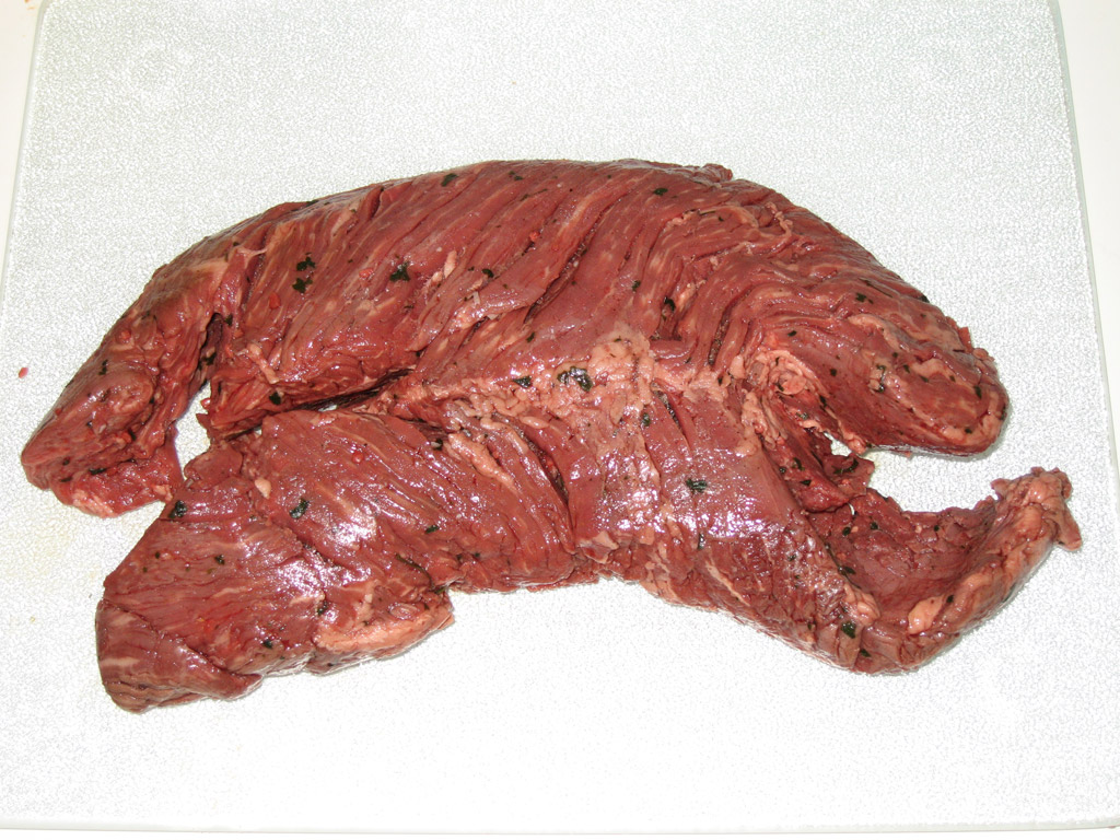 Raw hanger steak. The steak has been marinated in wine, garlic, and spices, thus there are flecks seen on the surface.